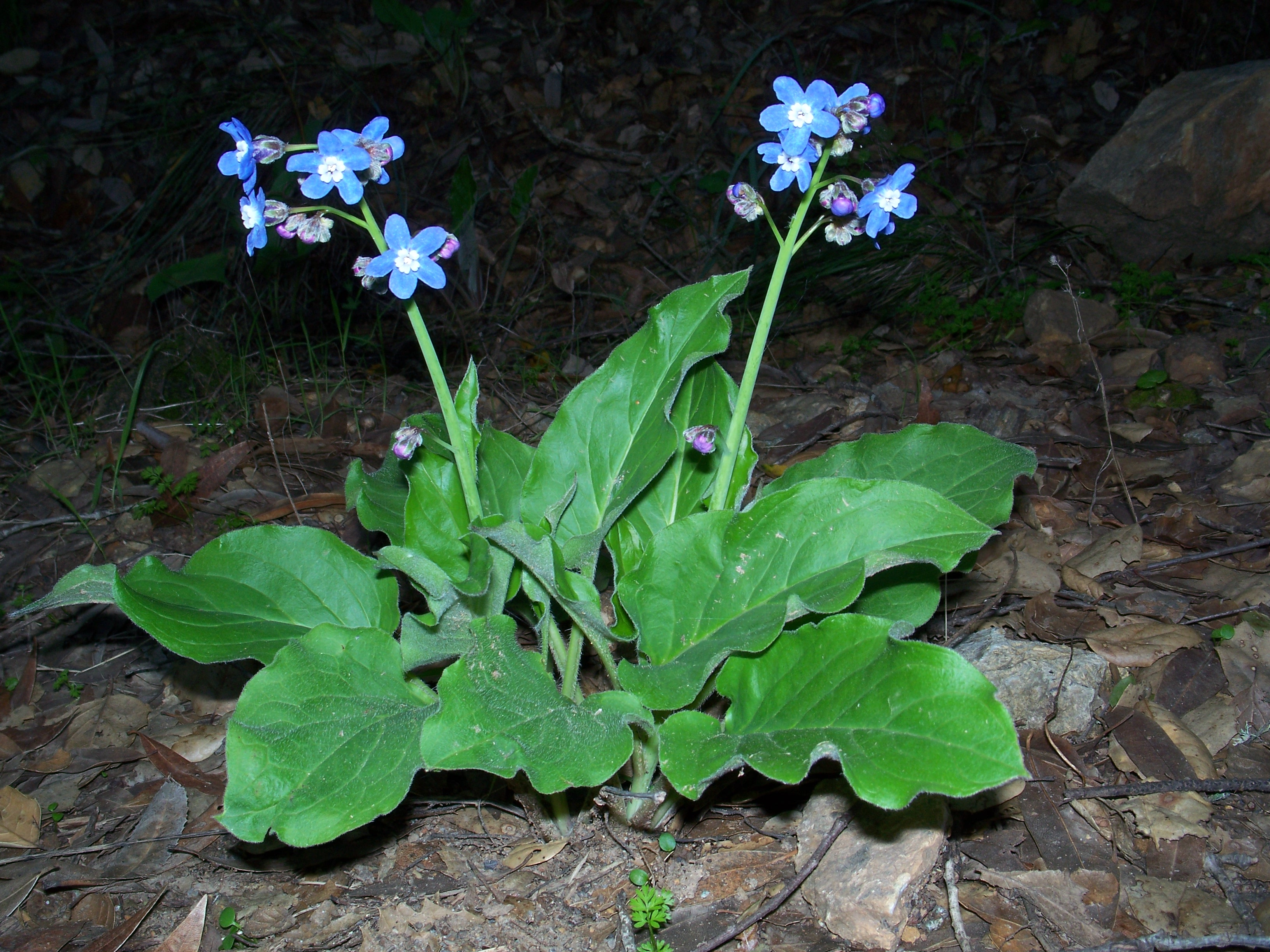 Pacific hound's tongue